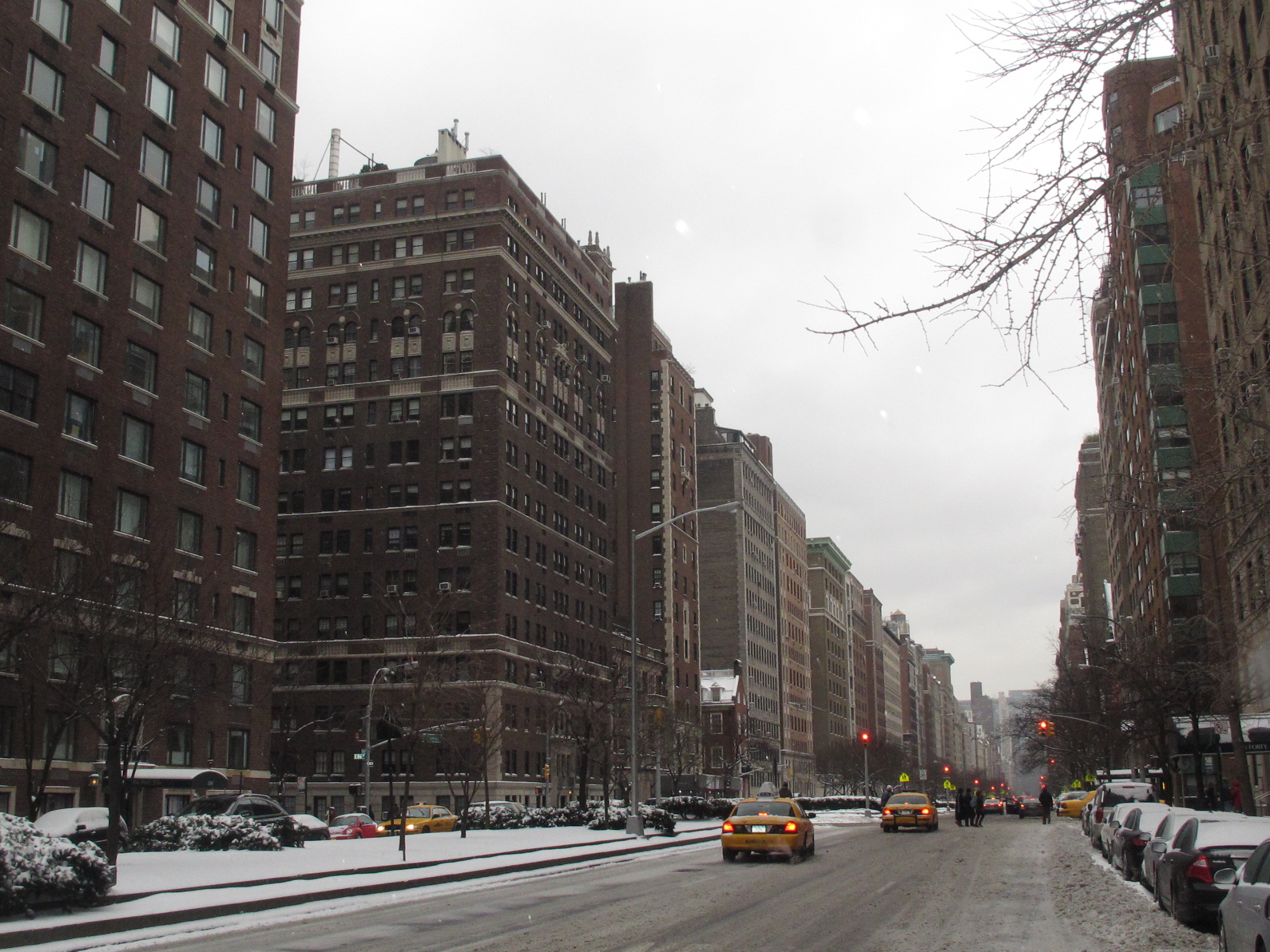 snowed Park Avenue, Upper East Side, Manhattan